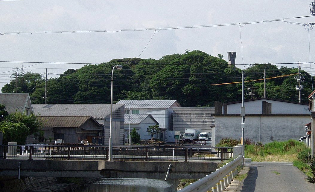 The hill of the ruins of Yabase Castle, viewed from north, located in Yabase, Kotoura, Tottori, Japan.